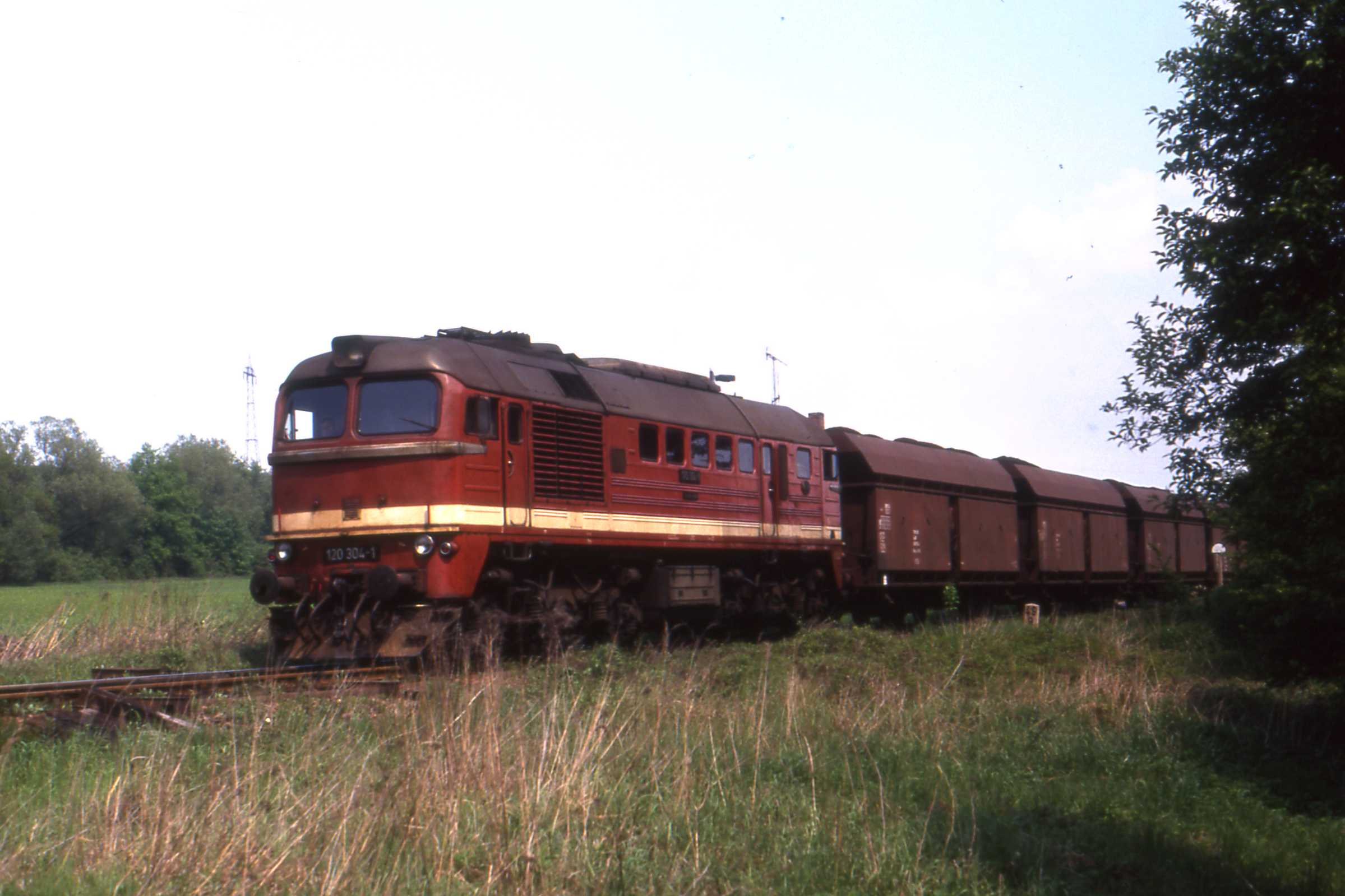 A coal train from the Weissenfels area between Zeitz and Gera at Wetterzeube. These were not a common sight by 1990 although the large majority were still in service .The Deutsche Reichsbahn put 378 of them into service between 1966 and 1975. In 1992 they became class 220 with the unification of Germany.